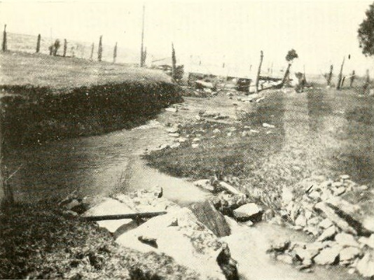 View of Long Marsh Run facing upstream from the back of Villa LaRue towards its crossing with Lewisville Road, which can be seen in the background.